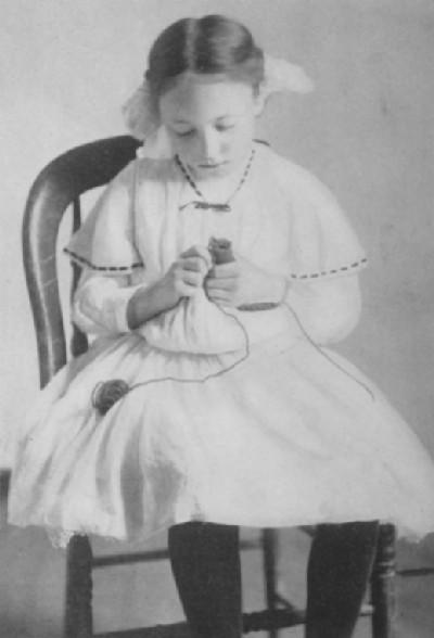 A young girl practices the technique known as spool knitting. This image appeared in the 1909 book Spool Knitting by Mary A. McCormack.